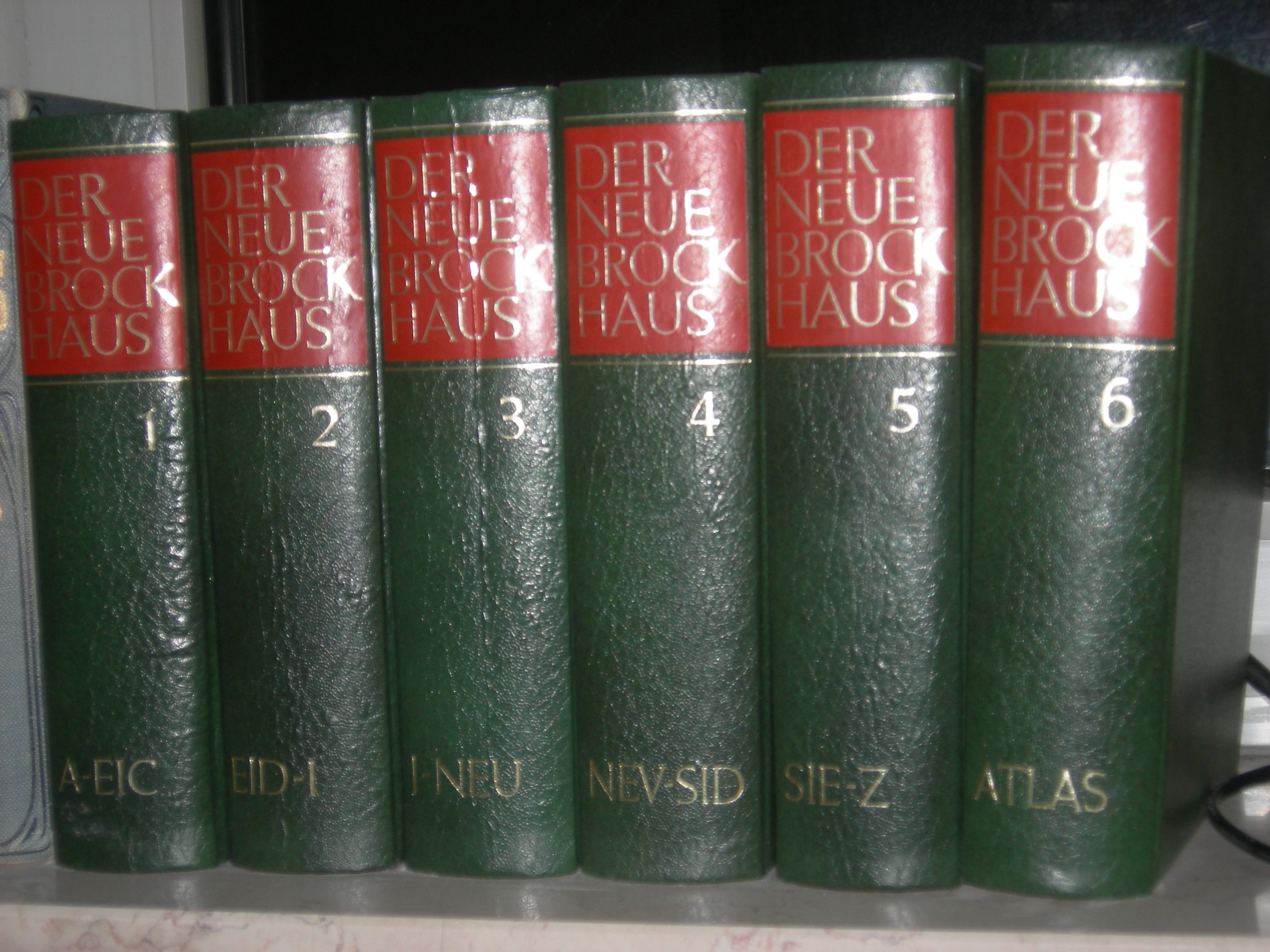 Der neue Brockhaus, 1973